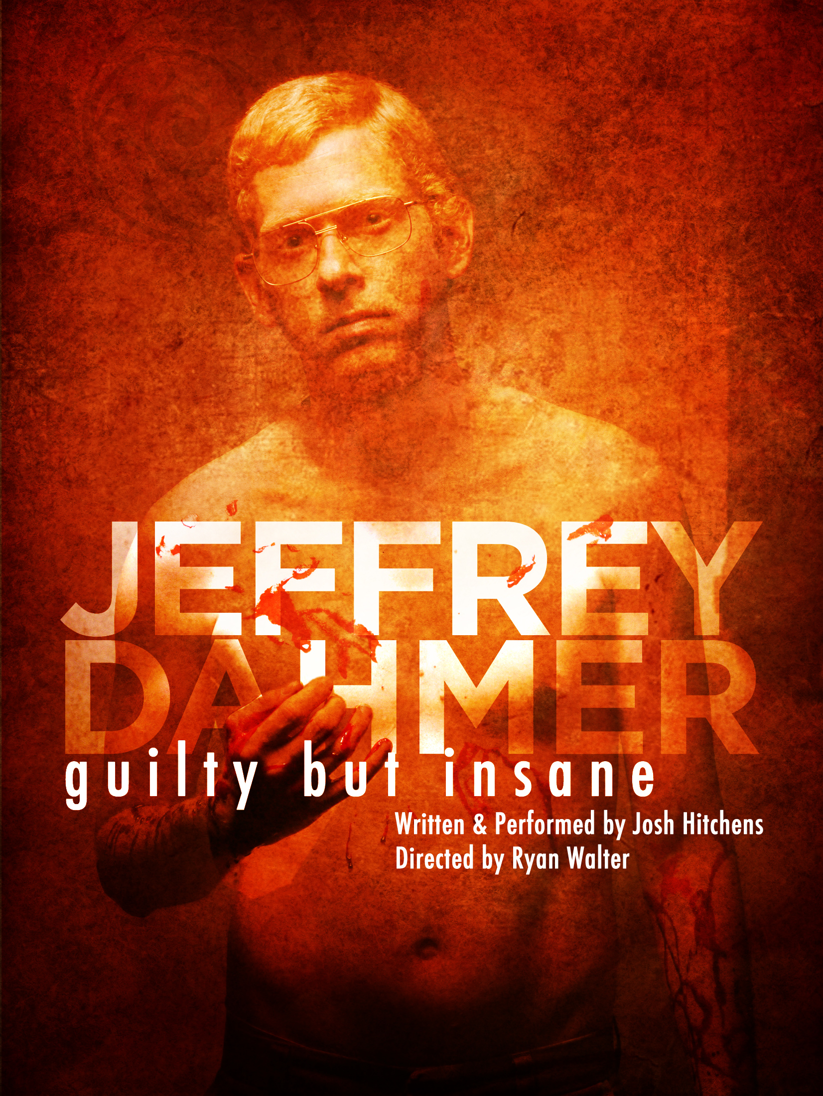 Josh Hitchens as Jeffrey Dahmer in a theatrical poster for a play.